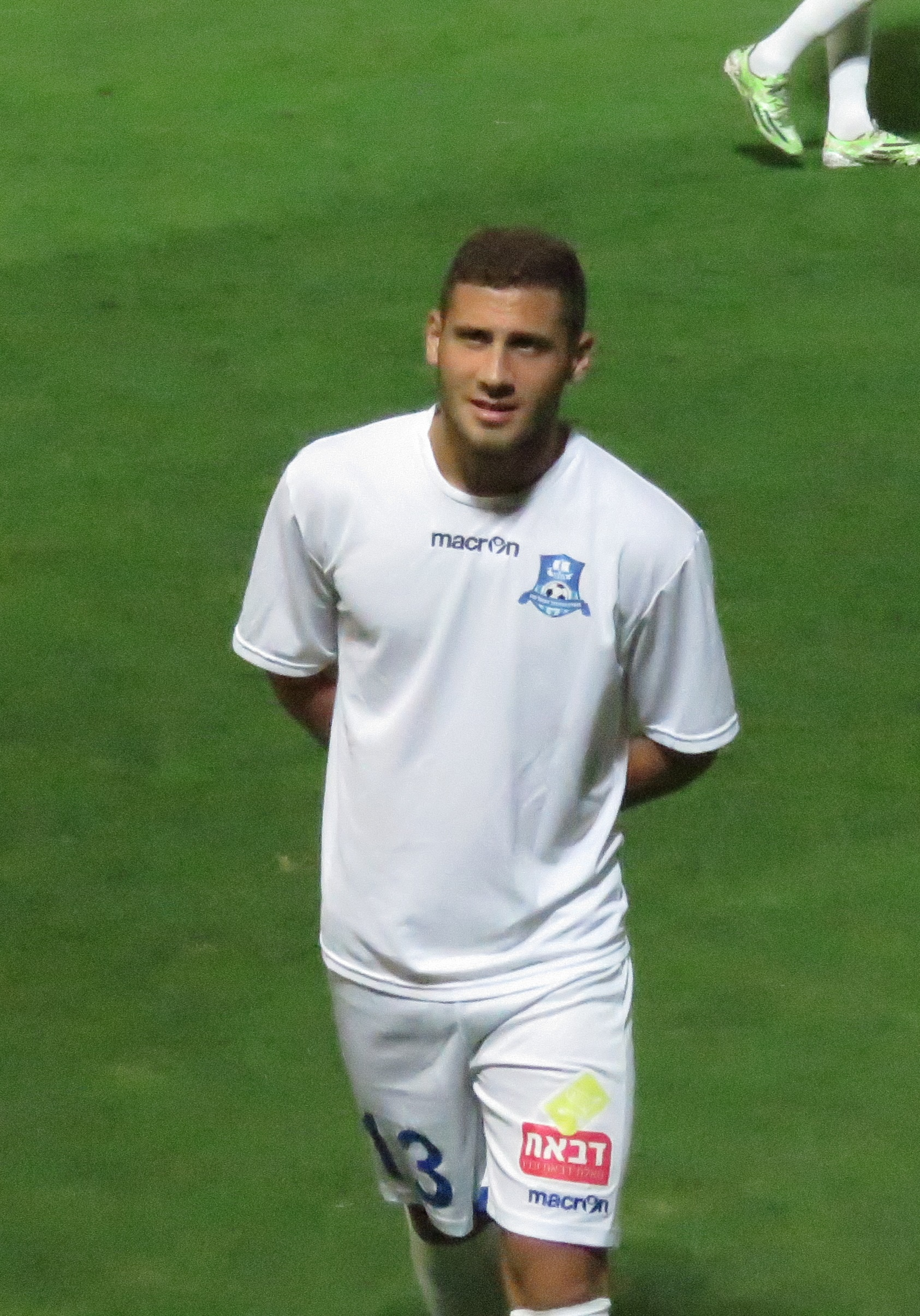 Bnei Yehuda Tel Aviv vs. Hapoel Acre - August 31, 2015